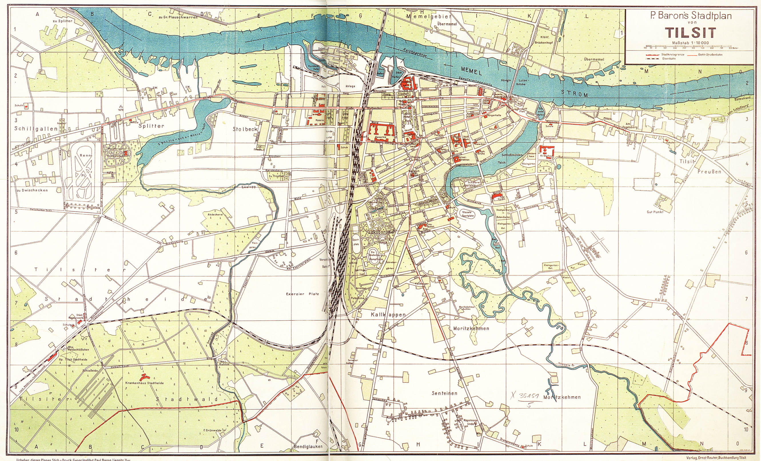 Map of Tilsit with tram lines